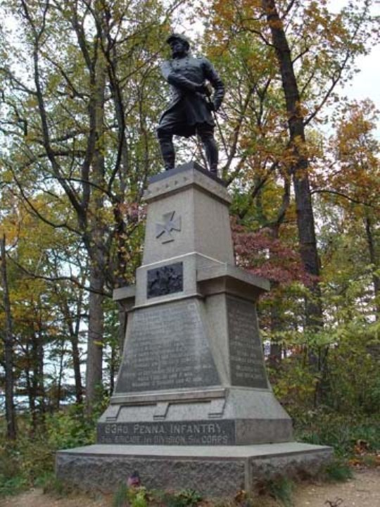 83rd Pennsylvania Infantry Monument, General Strong Vincent statue, Little Round Top, Gettysburg Battlefield.